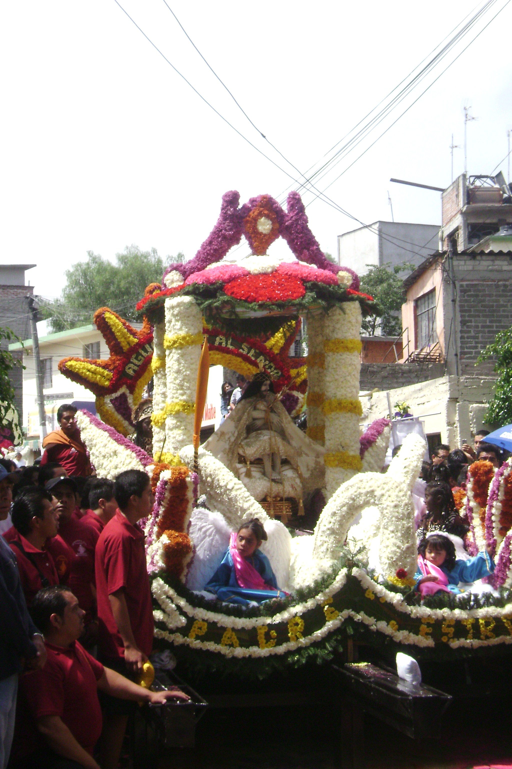 Señor de la MIsericordia